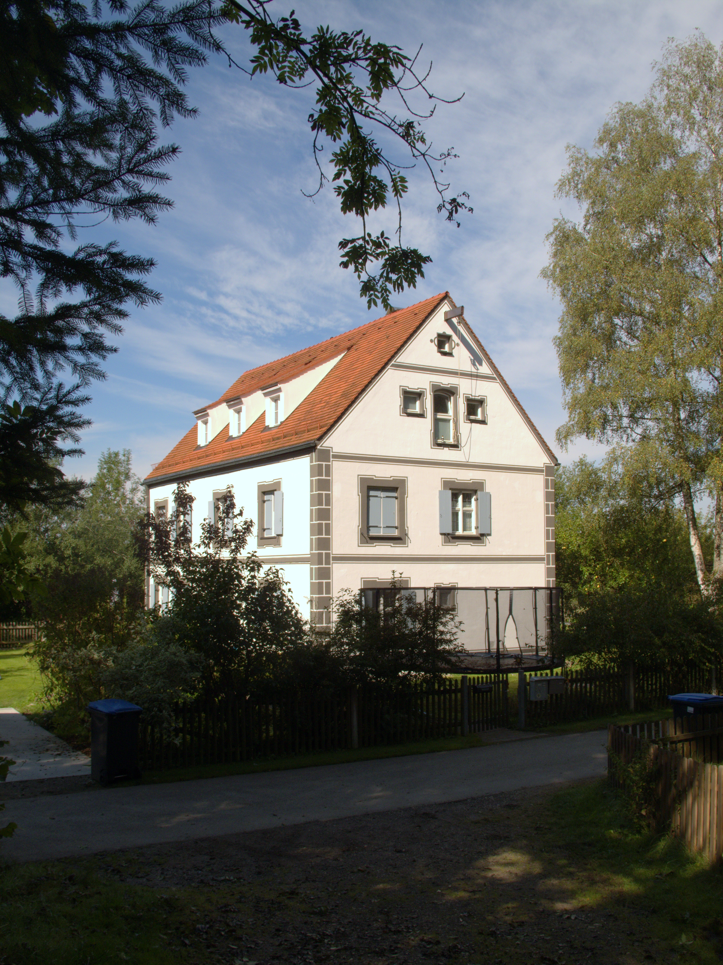 This is a photograph of an architectural monument.